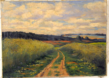 Painting by Jenny Schweminski 'Weg durch die Felder' (Way through the Fields).